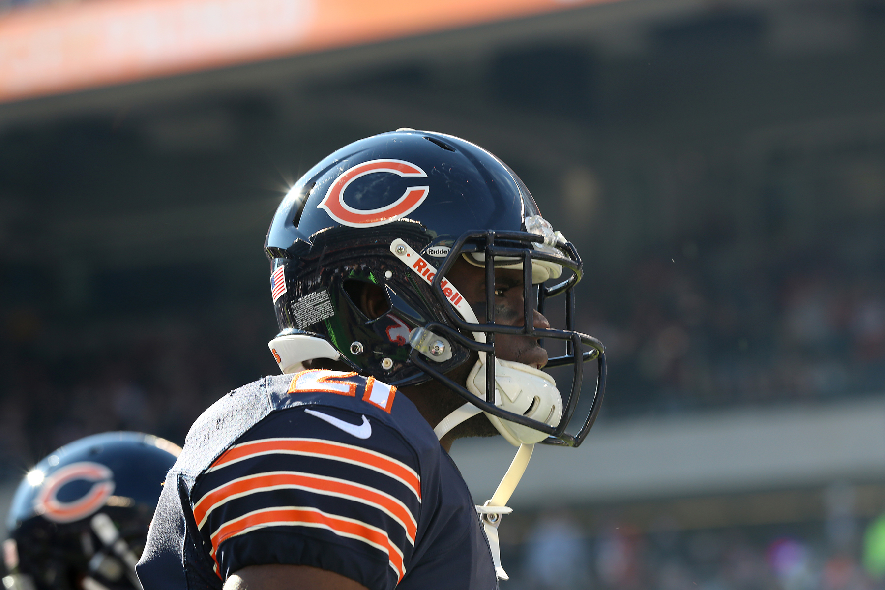 Chicago Bears safety, Major Wright, playing playing against the Detroit Lions on November 10, 2013.